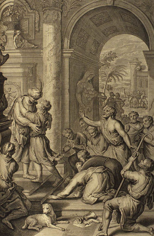 Joseph makes himself known to his brethren, as in Genesis 45:1-25: "Then Joseph could not refrain himself before all them that stood by him; and he cried, Cause every man to go out from me. And there stood no man with him, while Joseph made himself known unto his brethren. And he wept aloud: and the Egyptians and the house of Pharaoh heard. And Joseph said unto his brethren, I am Joseph; doth my father yet live? And his brethren could not answer him; for they were troubled at his presence. And Joseph said unto his brethren, Come near to me, I pray you. And they came near. And he said, I am Joseph your brother, whom ye sold into Egypt. Now therefore be not grieved, not angry with yourselves, that ye sold me hither: for God did send me before you to preserve life. For these two years hath the famine been in the land: and yet there are five years, in the which there shall neither be earing nor harvest. And God sent me before you to preserve you a posterity in the earth, and to save your lives by a great deliverance. So now it was not you that sent me hither, but God: and he hath made me a father to Pharaoh, and lord of all his house, and a ruler throughout all the land of Egypt. Haste ye, and go up to my father, and say unto him, Thus saith thy son Joseph, God hath made me lord of all Egypt: come down unto me, tarry not."; illustration from the 1728 Figures de la Bible; illustrated by Gerard Hoet (1648-1733) and others, and published by P. de Hondt in The Hague; image courtesy Bizzell Bible Collection, University of Oklahoma Libraries